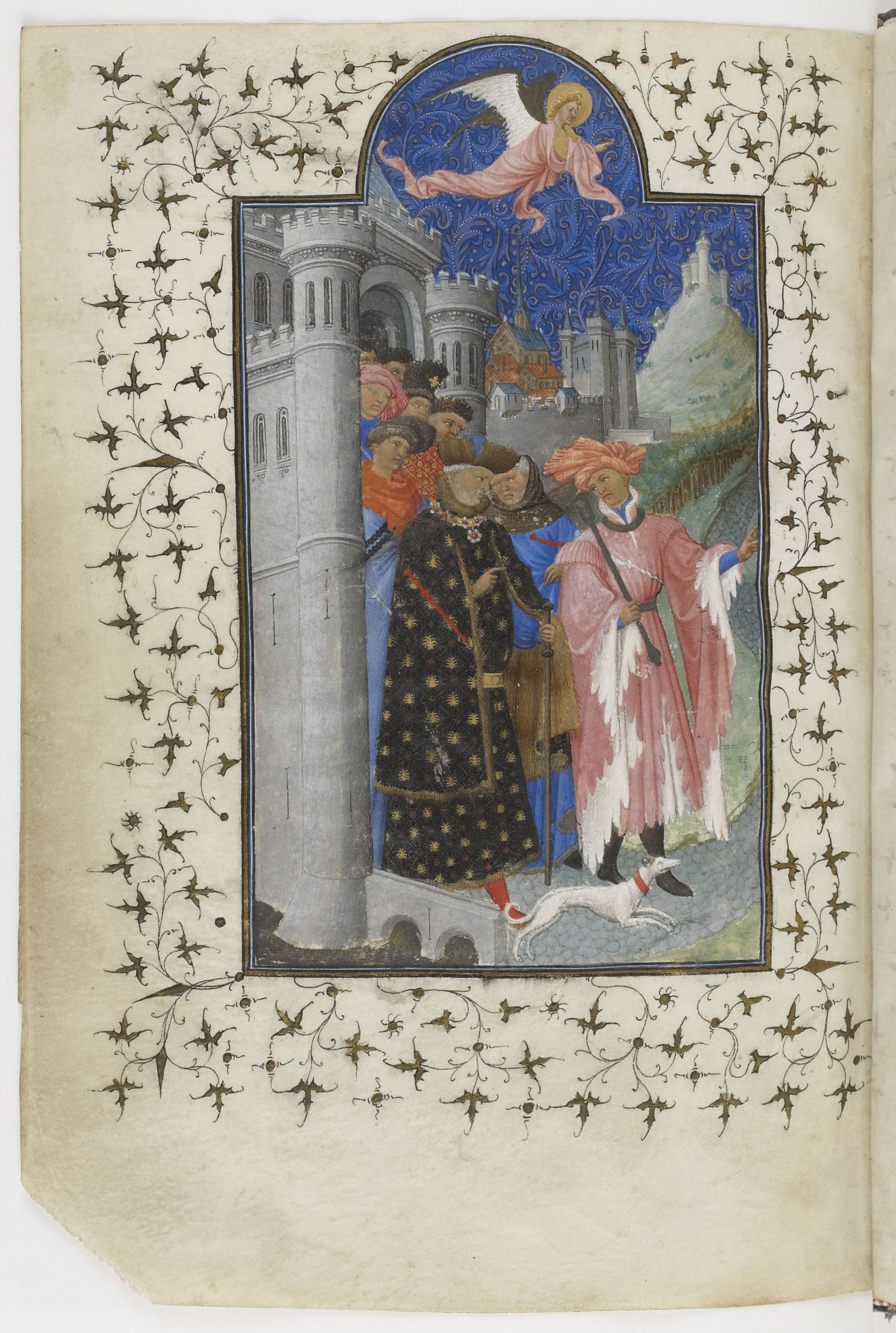 Jean de Berry is depicted here as a pilgrim. He is humbly setting off on foot to an unknown sanctuary. The old duke had himself portrayed here as a believer handing over leadership to an angel but at the same time still wearing the imposing attire of a powerful statesman. Observe his expression as he glances at the messenger ahead. This bears witness to the Limbourgs' perceptiveness and skill in portraying the patron who had befriended them. Few artworks reflect so well the spirit of a Maecenas as Les Petites Heures. Jean de Berry employed several artists for the illumination of this book between 1375 and 1395. The Limbourgs added this pilgrimage scene in 1412 on the duke's request. The man on the right wears a Houppelande